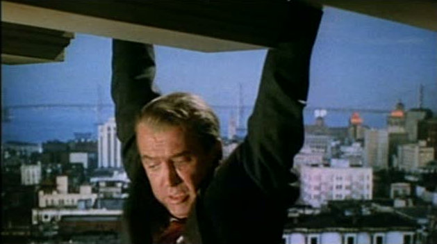 Screenshot from the original 1958 theatrical trailer for the film VertigoFrame taken from MPEG4. Note: This version of the original 1958 theatrical trailer is of significantly lower quality than the 1996 restoration theatrical trailer.